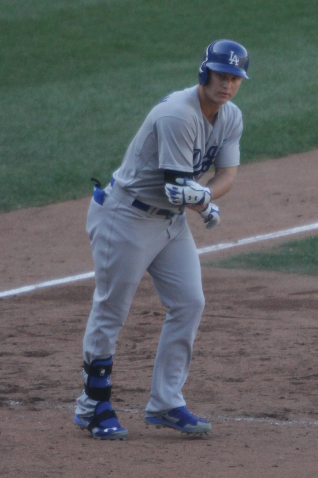 Joc Pederson for the 2014 Los Angeles Dodgers against the 2014 Chicago Cubs at Wrigley Field.